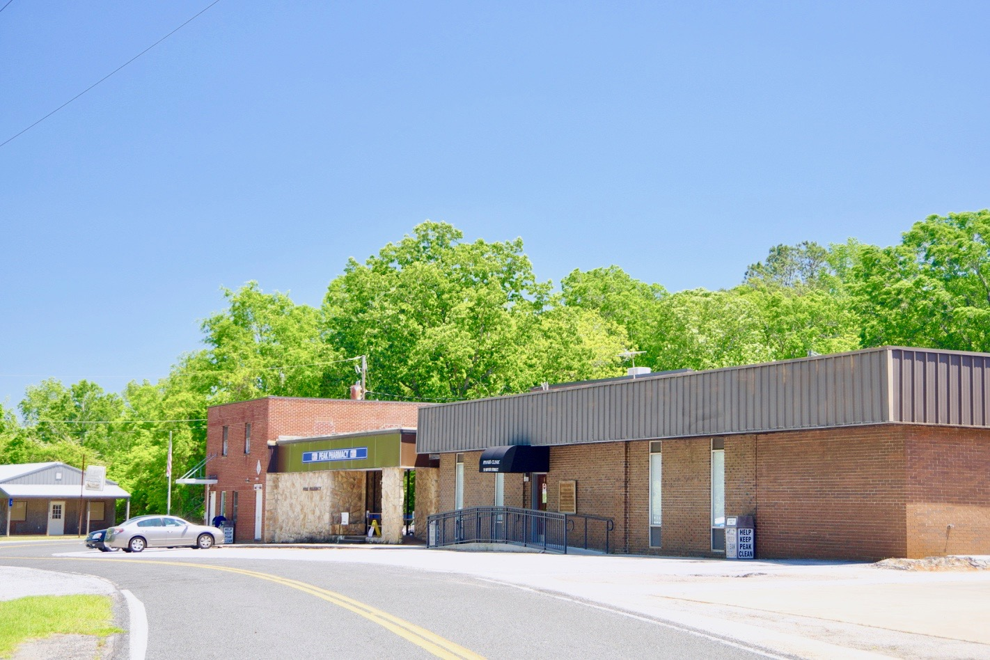 Buildings along River Street in Peak, South Carolina, United States